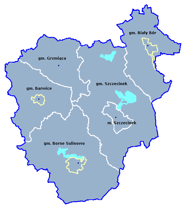 Szczecinek County - administrative divisions